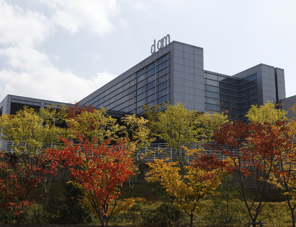 Daegu Art Museum